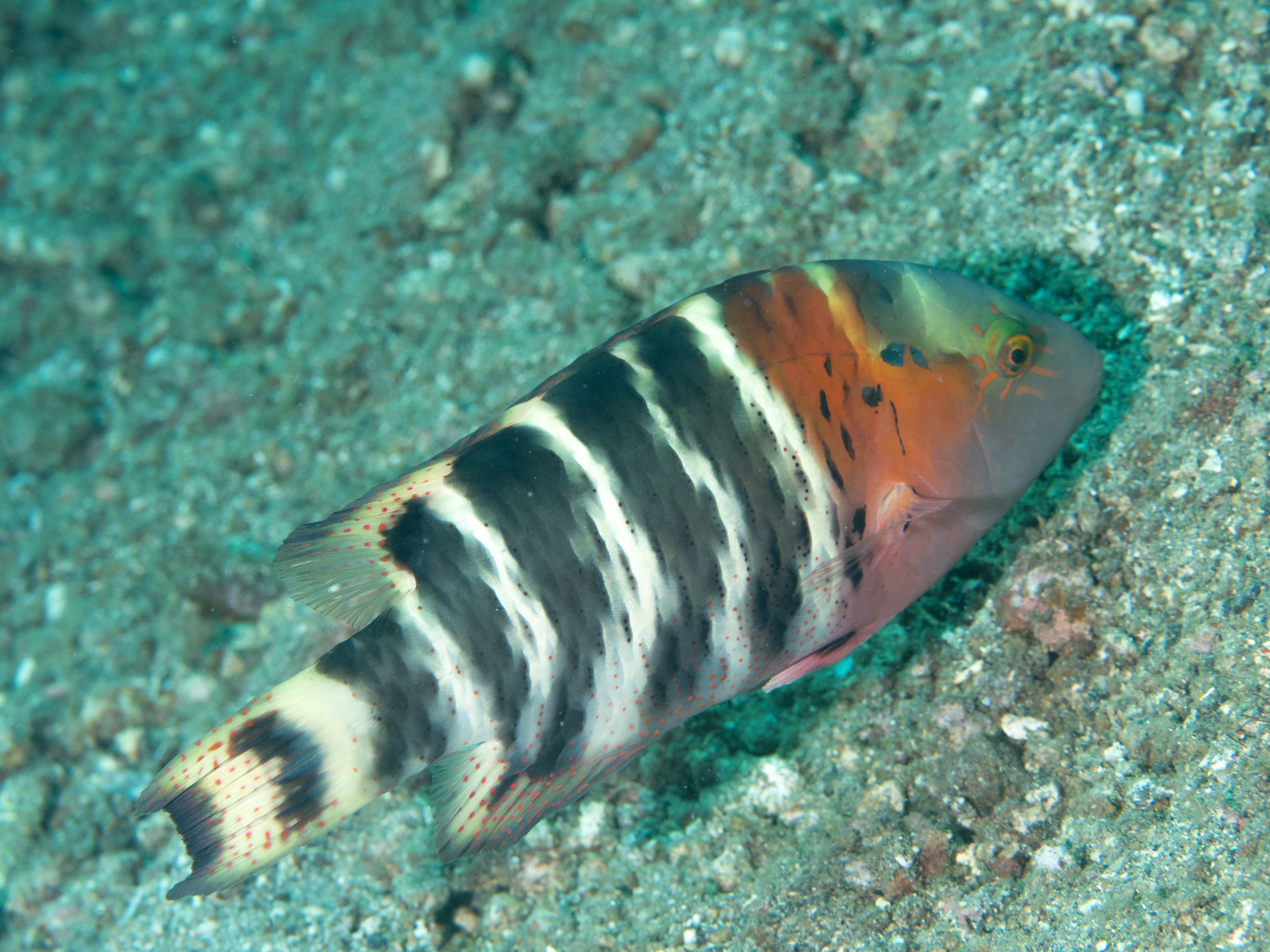 Lembeh, Indonesia - Redbreasted wrasse (Cheilinus fasciatus)